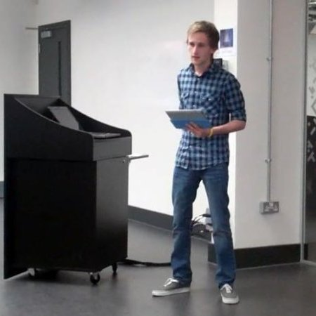 Jacob Clark presenting Raspcontrol at Google Campus London